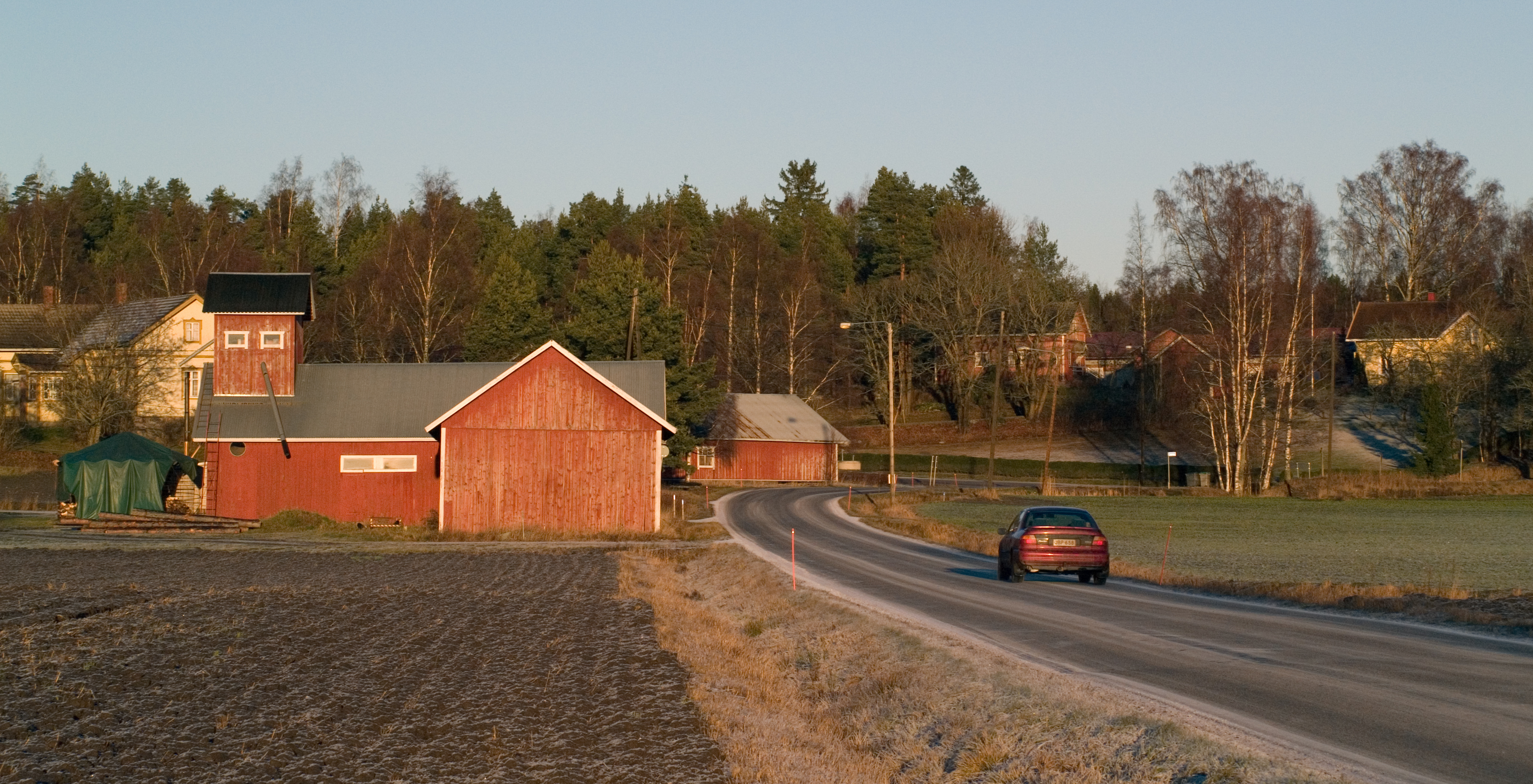 Vintalantie road (local road 12283) in Vintala village, 2 km south of Lieto's old railway station. Lieto, Finland. Dec. 2013.